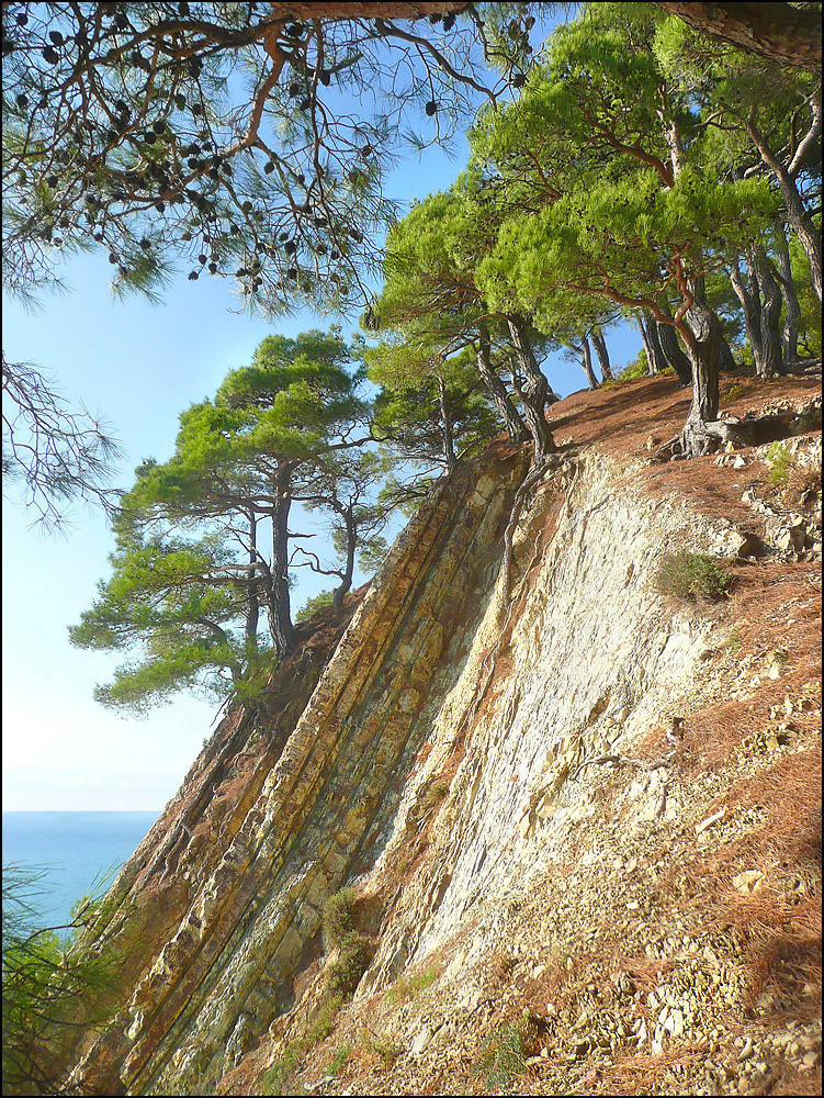 Pinus brutia on the mountain slopes in Dzhanhot, on the Black Sea.